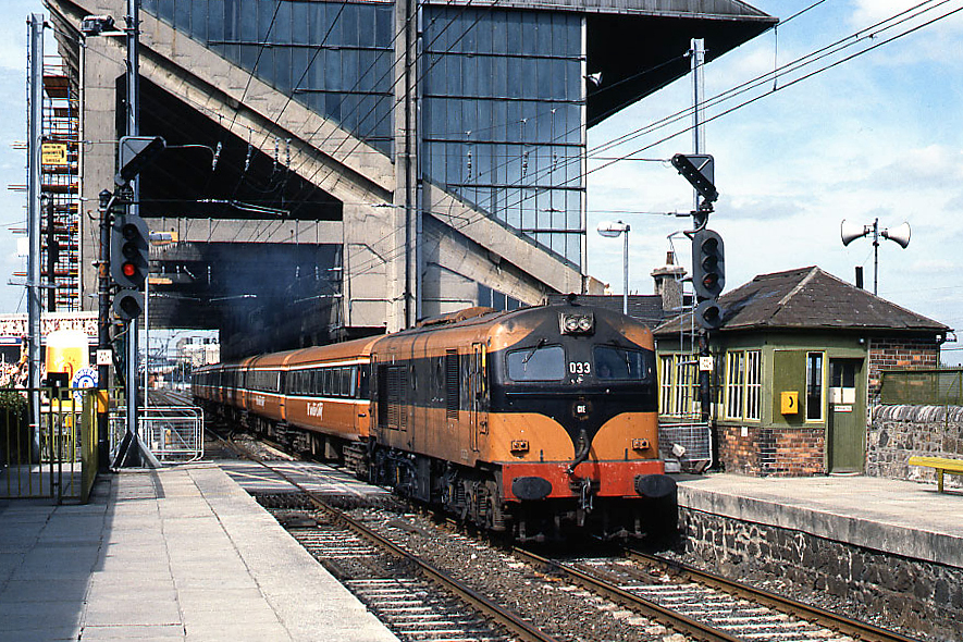 CIE 001 class locomotive No. 033 hauls the 13.25 Dublin (Connolly) - Rosslare Harbour passenger service through Lansdowne Road station. In the background can be seen the West Stand of Lansdowne Road rugby stadium, since demolished and replaced by the Aviva Stadium.